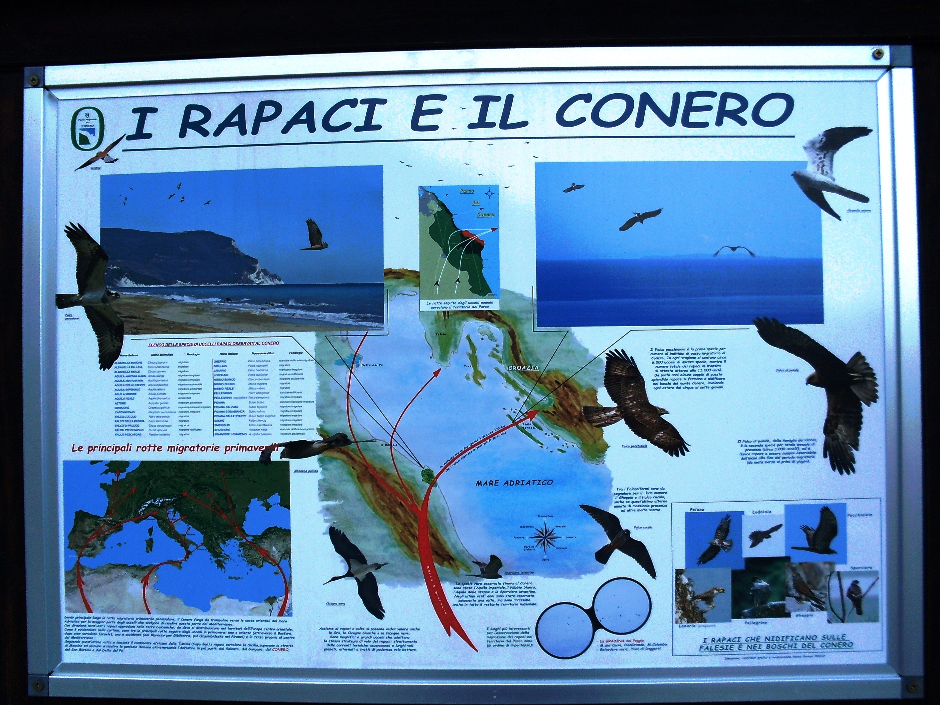 Italy Ancona Portonovo - birds of prey